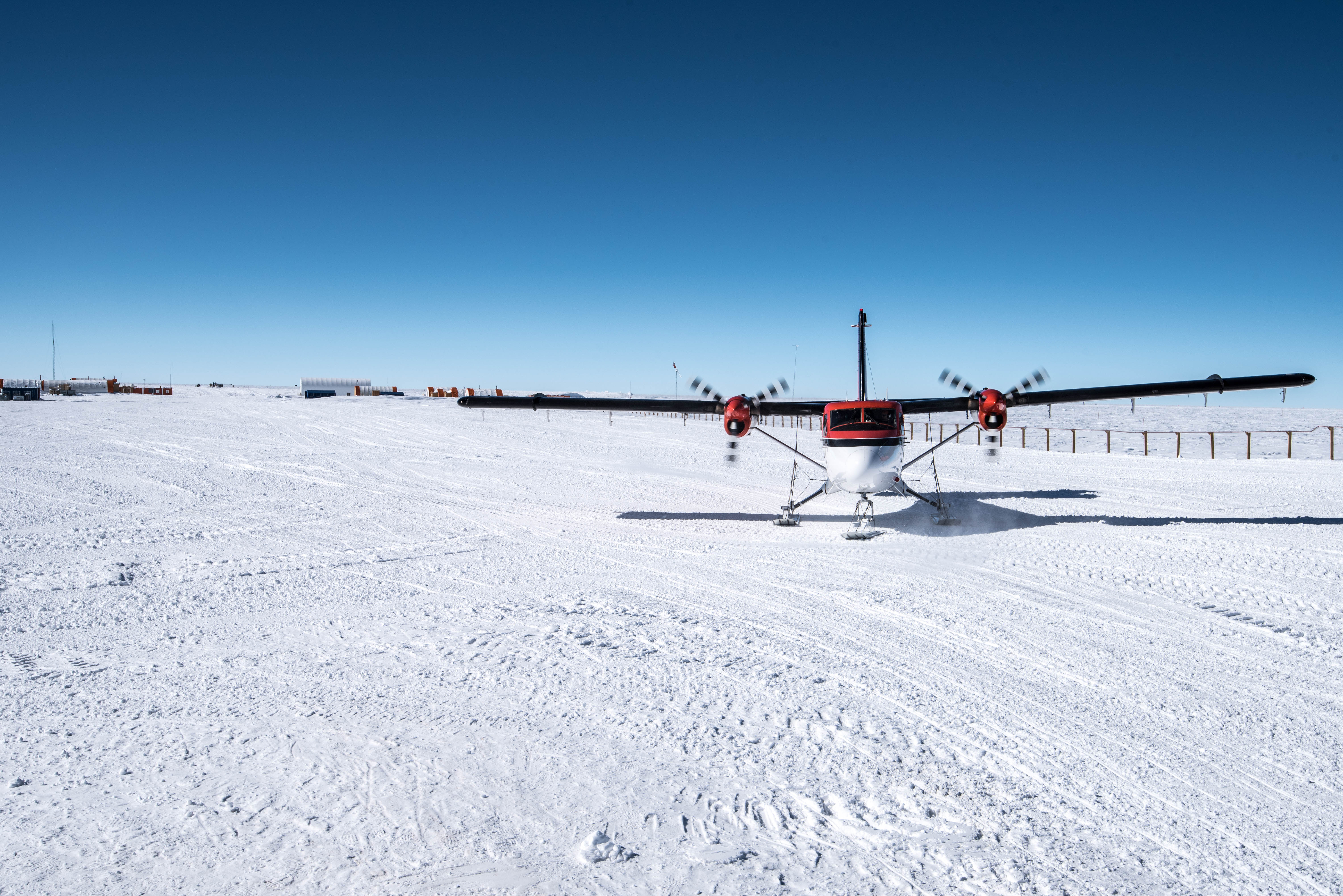 Concordia research base in the Antarctic is a place of extremes. During summer, aircraft take off on an almost daily basis. Concordia is a hubbub of activity as researchers from disciplines as diverse as astronomy, seismology, human physiology and glaciology descend to work in this unique location. For the rest of the year, around 14 crewmembers remain to keep the station running during the cold, dark winter months. ESA sponsors a research medical doctor in Concordia to study the effects of living in isolation. The extreme cold, sensory deprivation and remoteness make living in Concordia similar to living on another planet.